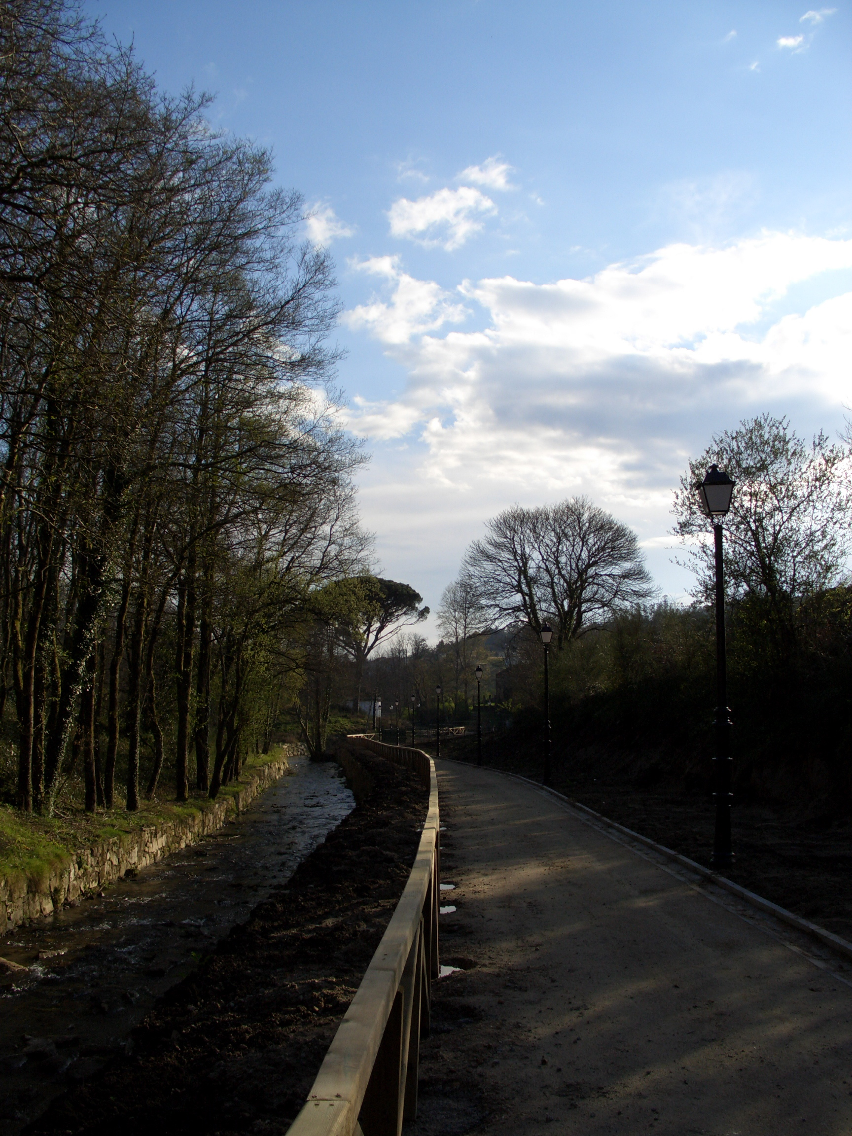 Duomes Brook, tributary of the Barcala River, which is tributary to the Tambre River, at Negreira.